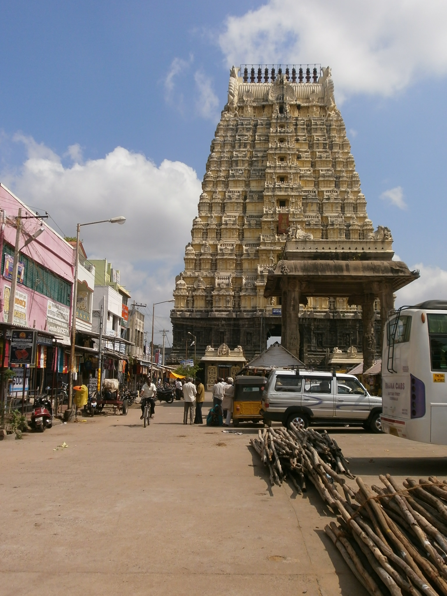 Ekambareswarar-Temple-Kanchipuram-South-India-1